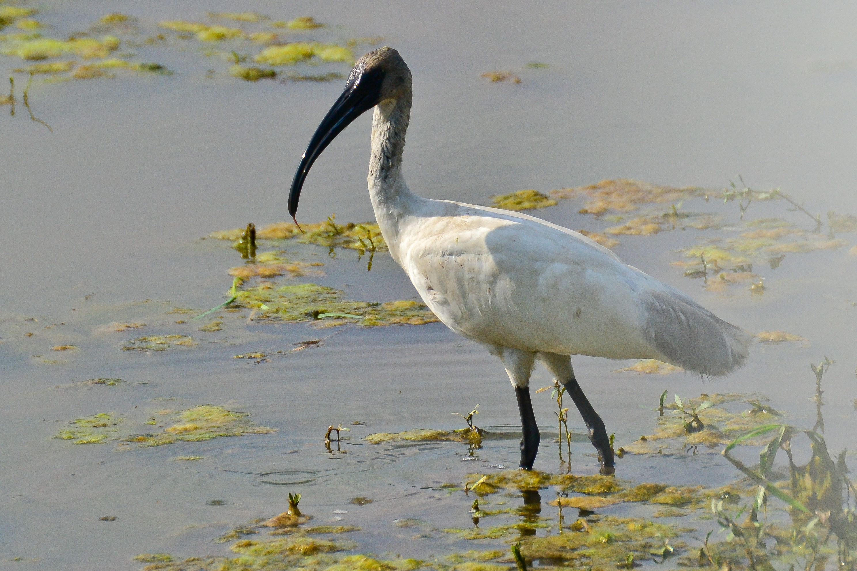 A juvenile Black-headed Ibis (Threskiornis melanocephalus) at Rajavallipuram, Tirunelveli, Tamil Nadu, India.